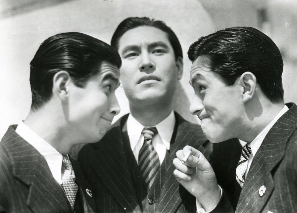 Shūji Sano, Shin Saburi and Ken Uehara in Konyaku sanbagarasu (1937) directed by Yasujirō Shimazu